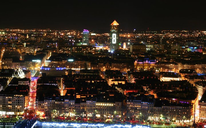 Lyon, Fête des Lumière 2010